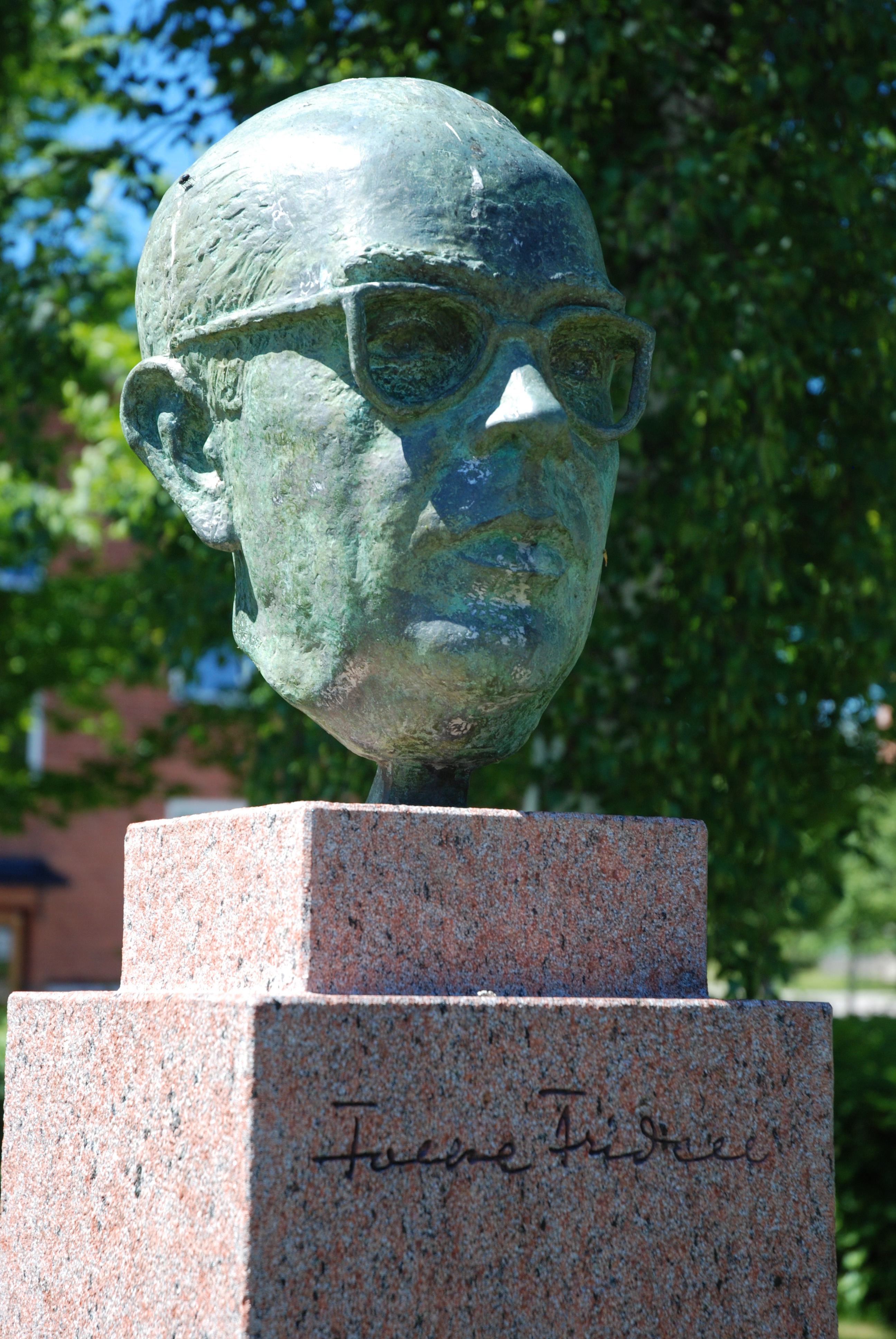 Maire Männik´s portrait of Swedish writer Folke Fridell, Ljungby, Sweden